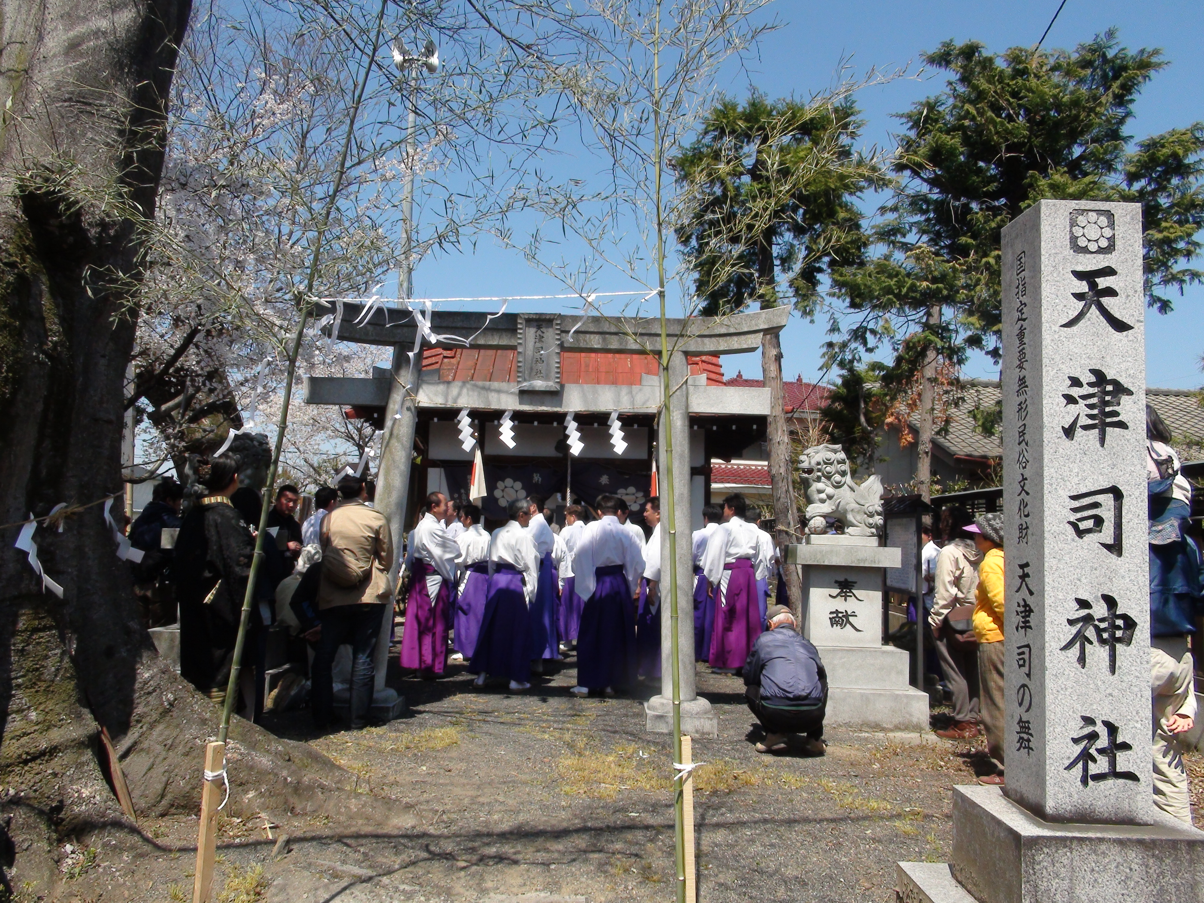 Tenzushi Shrine Kofu Yamanashi